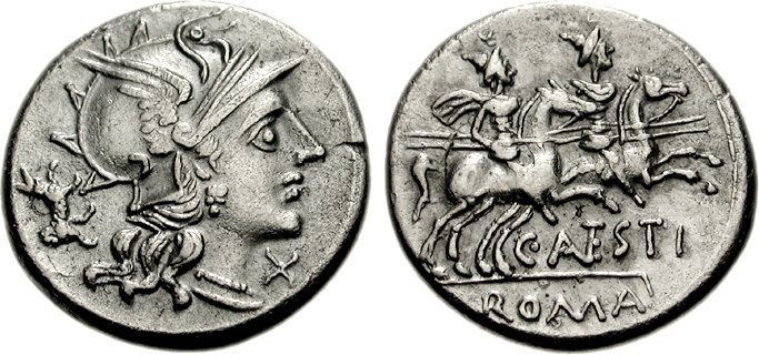 C. Antestius 146 BC. AR Denarius (4.25 g, 12h). Rome mint. Helmeted head of Roma right; behind, dog walking upwards; below chin, mark of value / Dioscuri on horseback riding right. Crawford 219/1a; Sydenham 406; Antestia 2. Good VF, minor porosity.